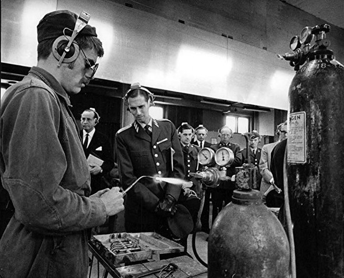 Swedish General and Master-General of the Ordnance Ove Ljung (1918-1997) during a visit to the Swedish Army Engineering School.